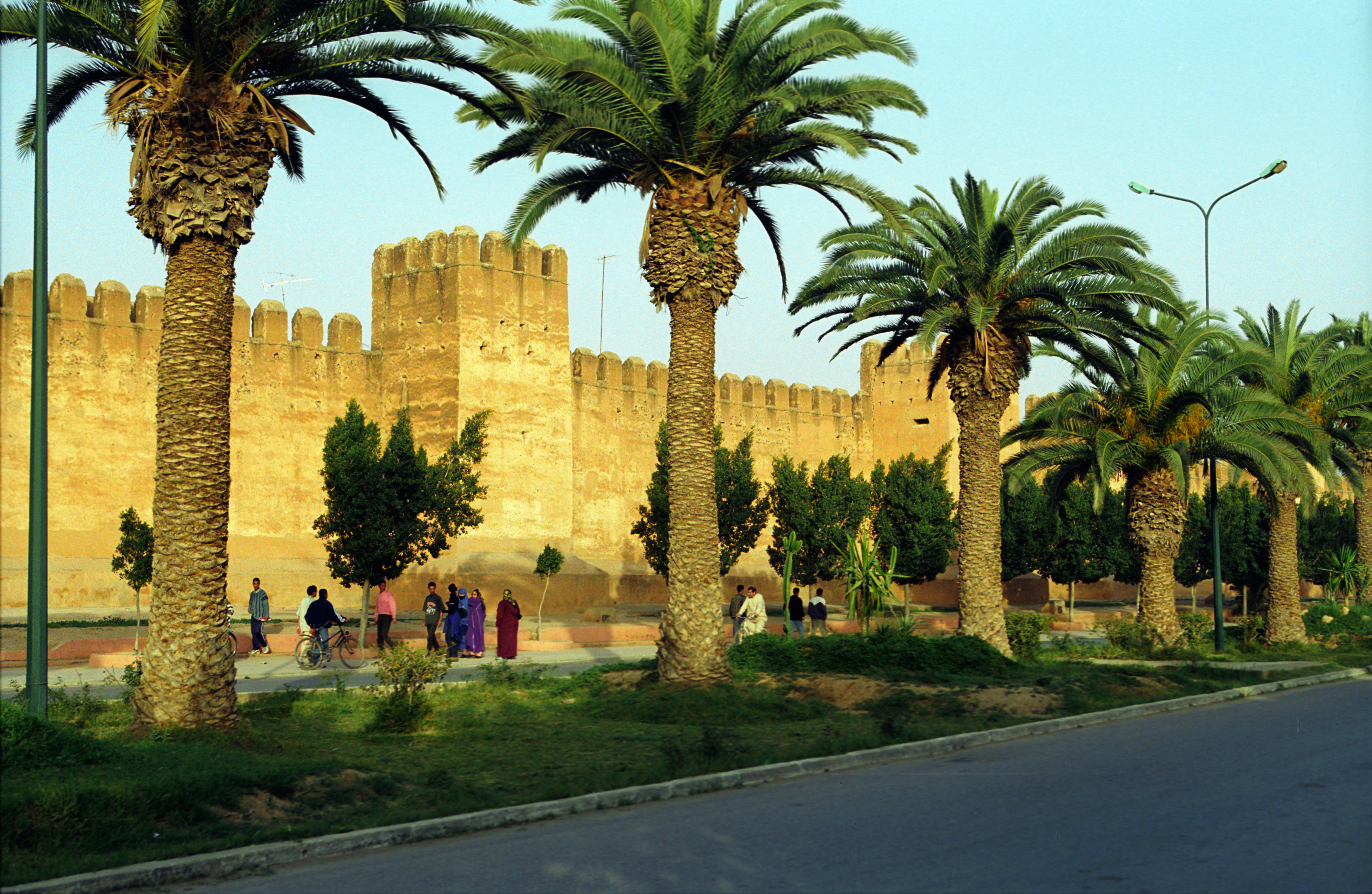 Defensive walls in Taroudant, Morocco